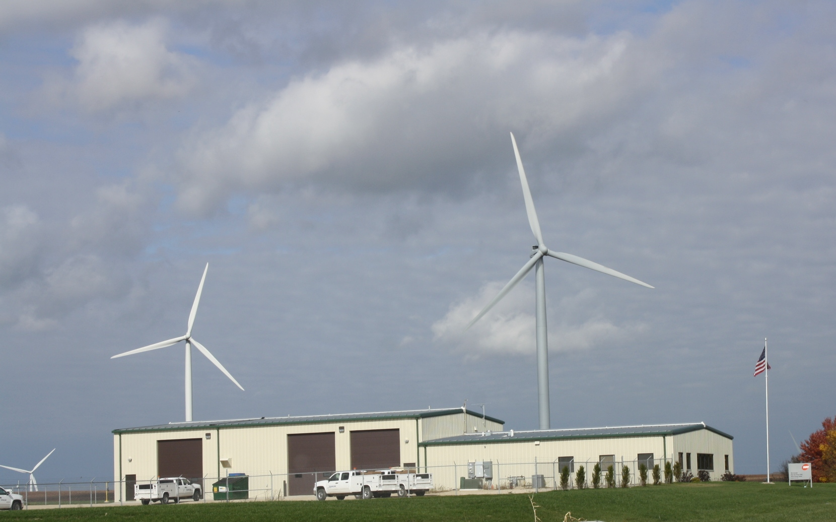 The headquarters for the Blue Sky Green Field Wind Farm north of Mount Calvary, Wisconsin.